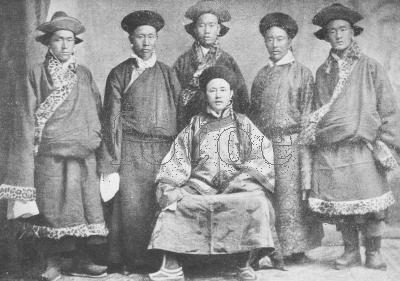 14th Dalai Lama, and his cabinet members in Tibet. Unknown date between 1919 and 1949.